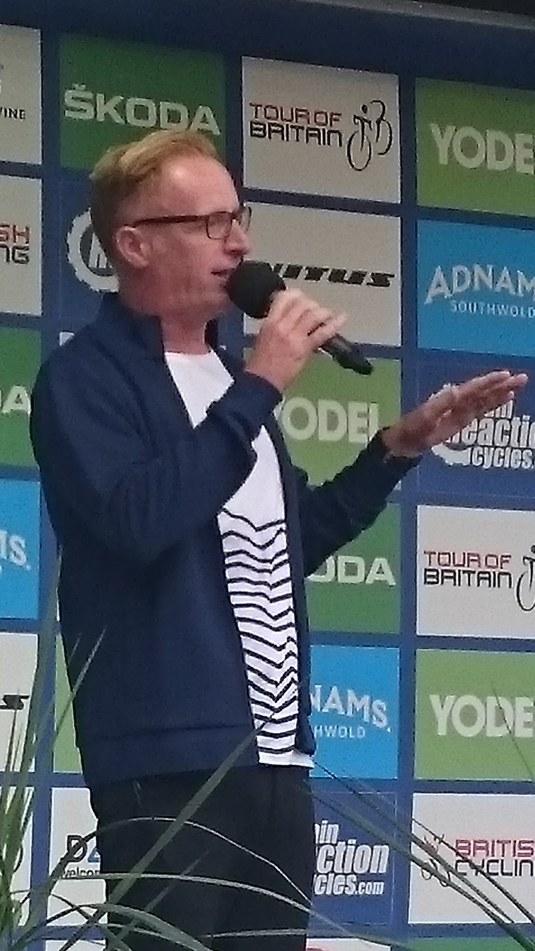 Bryan Burnett, pictured at the 2016 Tour of Britain team presentation in Glasgow on 3 September 2016.